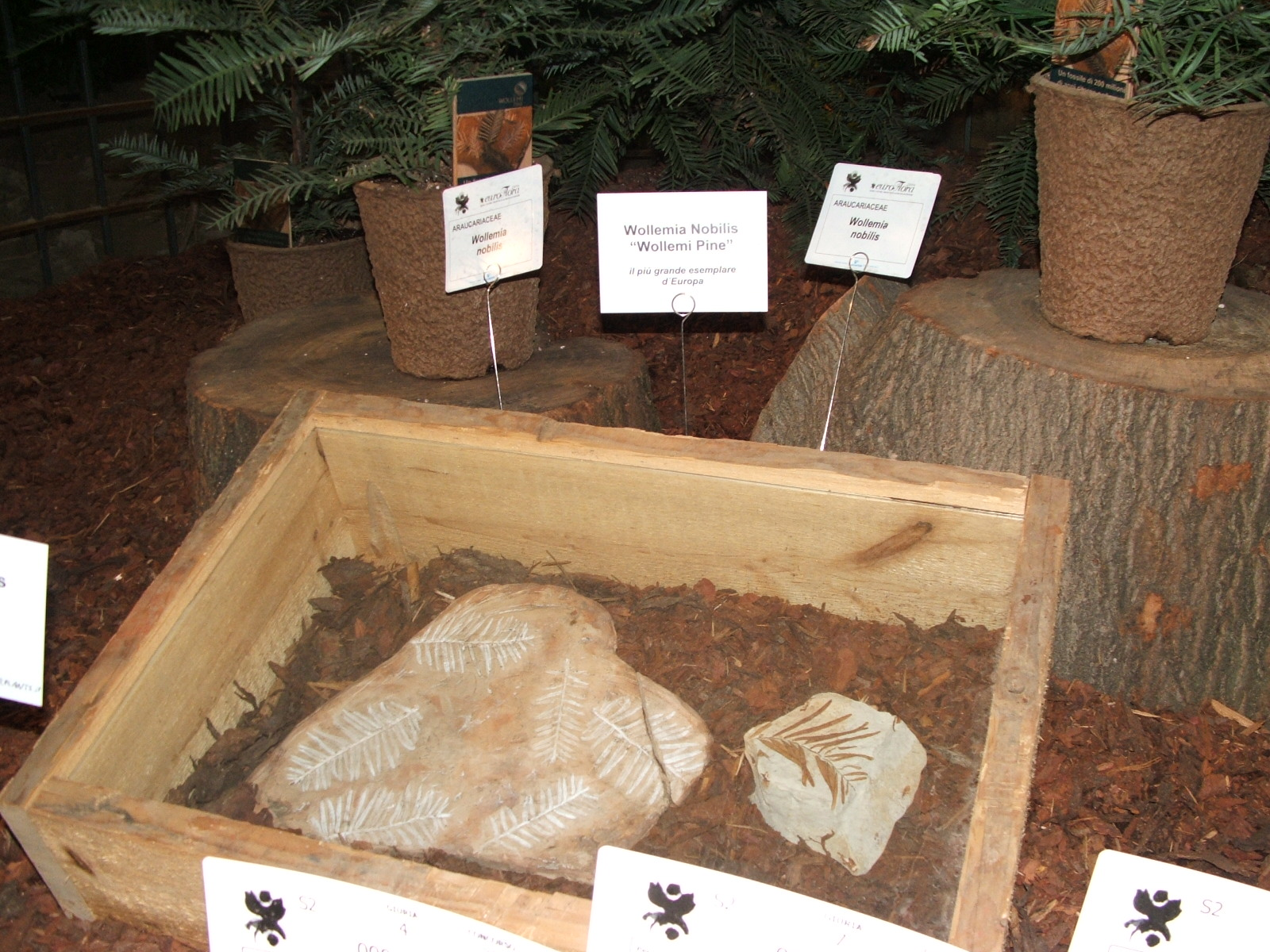 fossil resembling Wollemia nobilis)